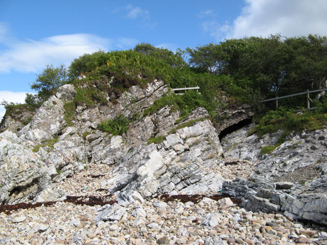 Quartzite outcrop The cream-coloured, translucent rock outcrops with a very bedded appearance are of the Eriboll Sandstone. These Lower Palaeozoic rocks are exposed in a complex structure known as the Ord Window, formed by folding, faulting and thrusting. The Ord Window shows the most southerly exposures of these rocks which can be found all the way to the North coast of Sutherland.